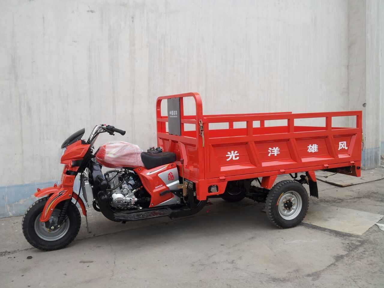 China Henan Luoyang Tricycle